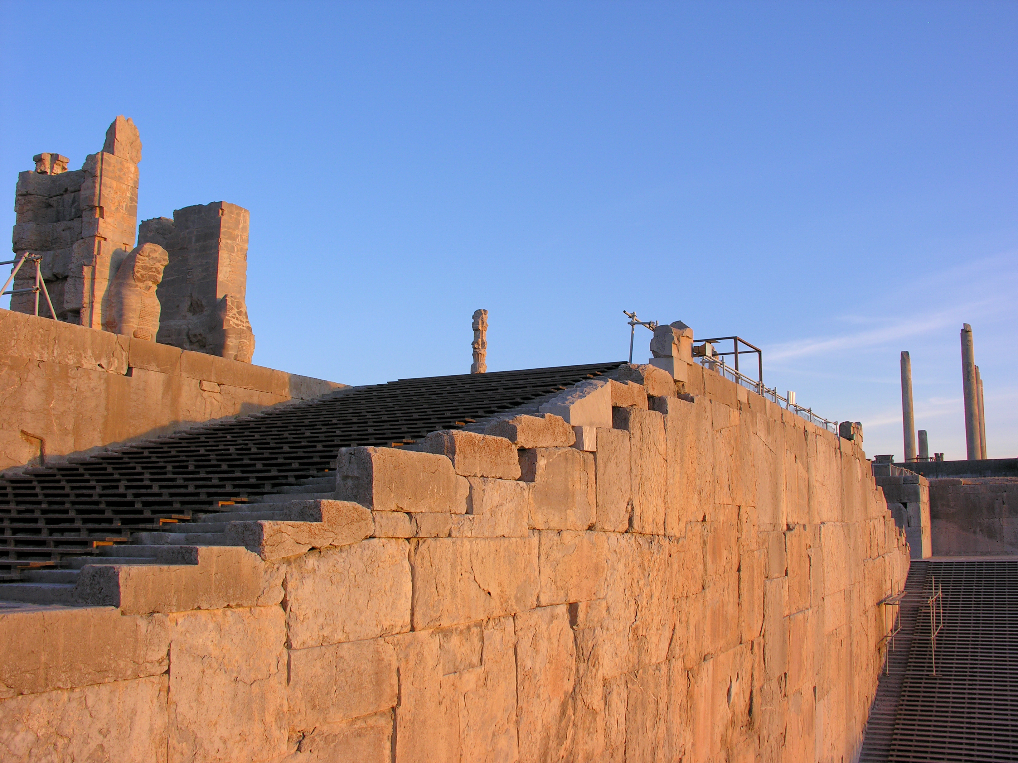 Iran, Stairs of all nations